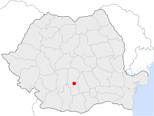 Location of Mioveni in Romania.